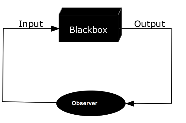 blackbox and observer, the "experiment profile"